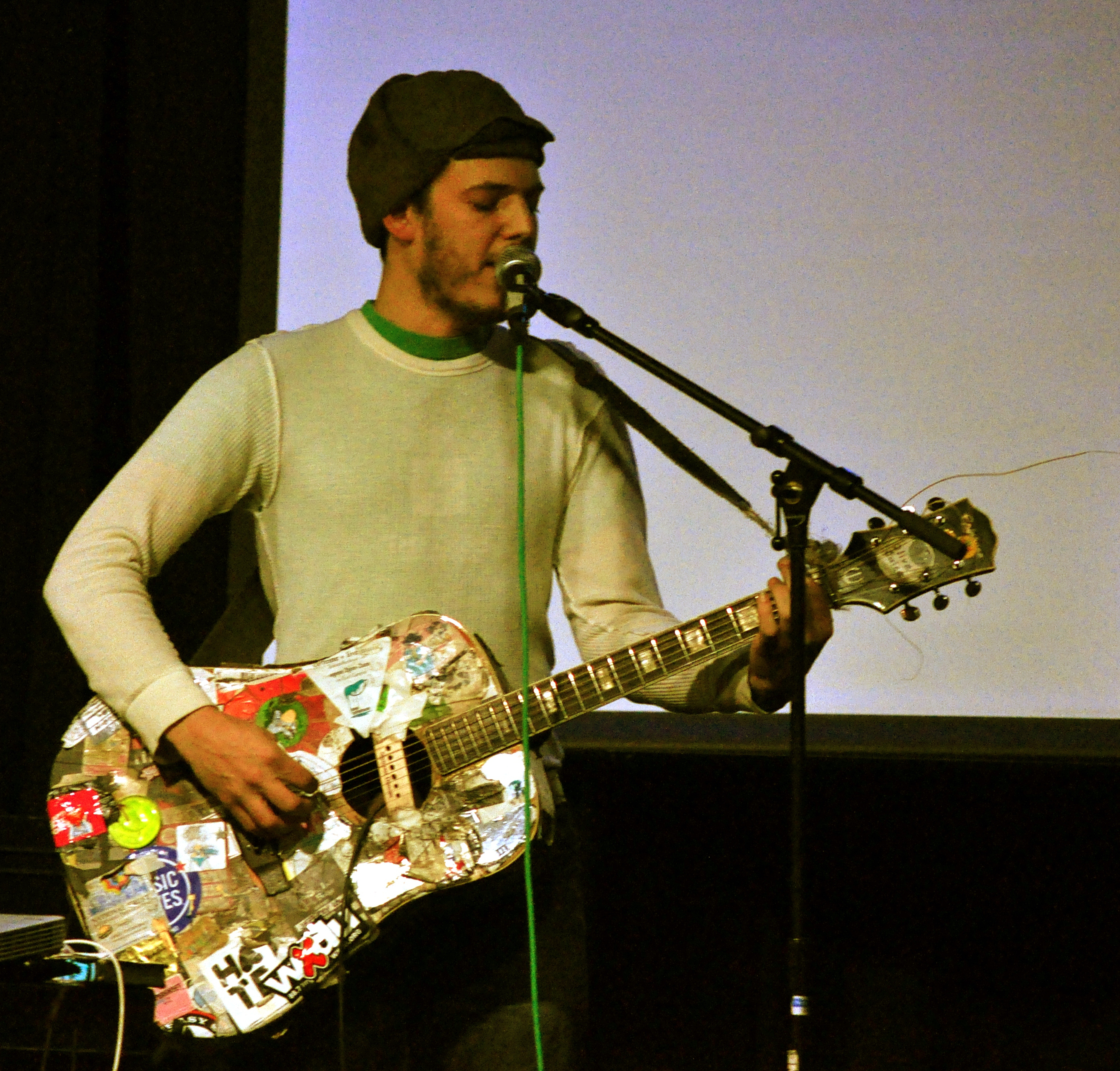 Jeffrey Lewis performing at the Vera Project, Seattle, Washington, USA.